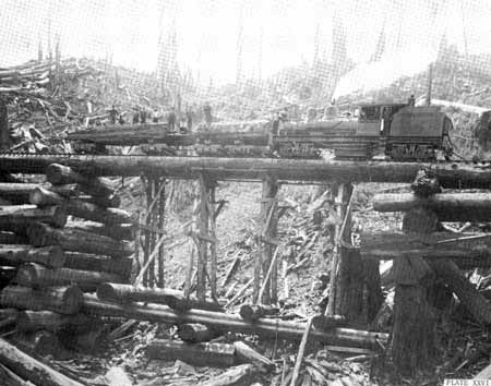 Steam train by Del Norte and Southern Railroad on a trestle bridge hauling redwood timber near Crescent City, California, around 1900.